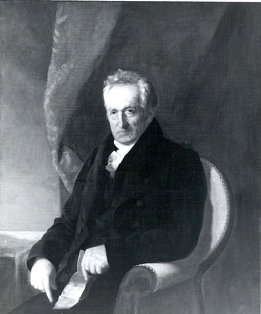 Nathan Smith